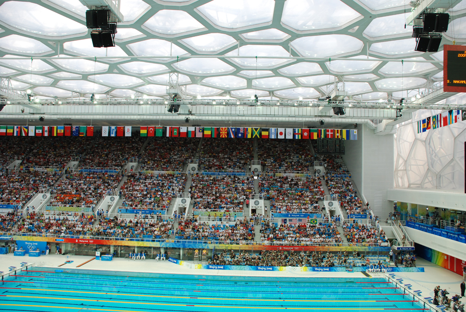 The watercube, Biejing, during the 2008 olympic games, august 16th